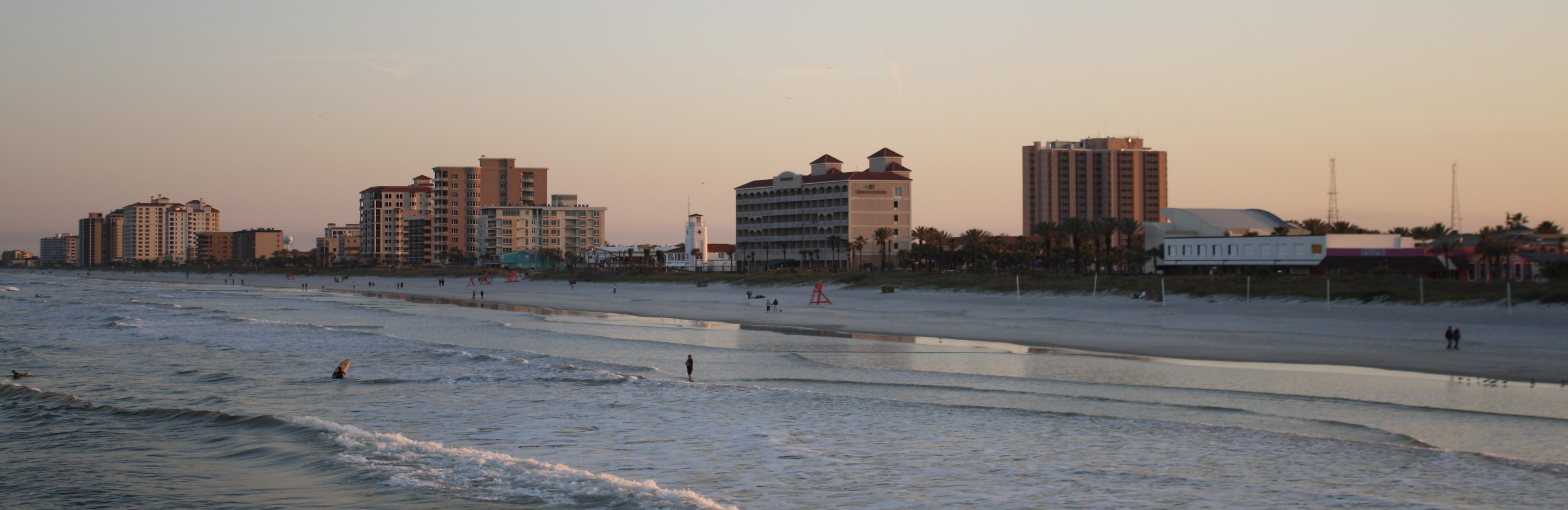 Jax Beach from the pier